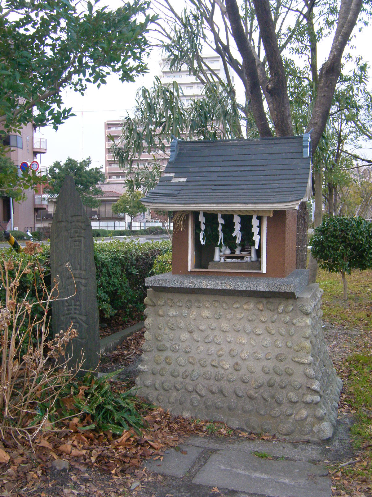 Hashihime Myōjinsha (Bridge Lady Shrine). Nagamachi 1 chōme, Taihaku ward, Sendai, Miyagi prefecgture, Japan.